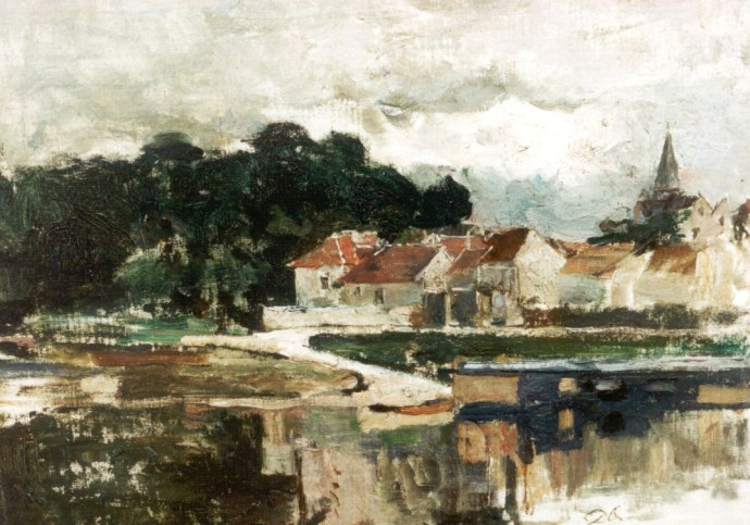 Frans dorpsgezicht